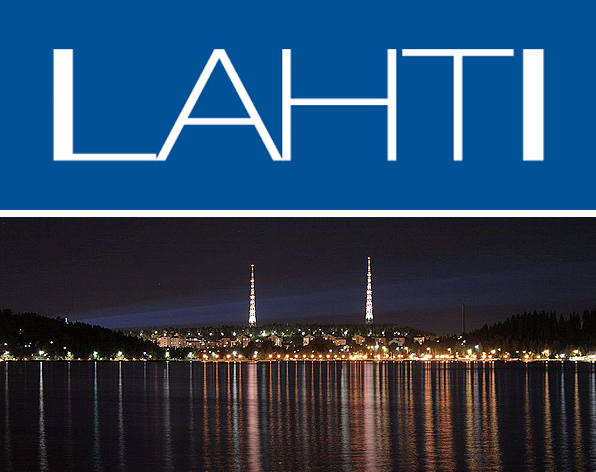 Lahti skyline and official logo